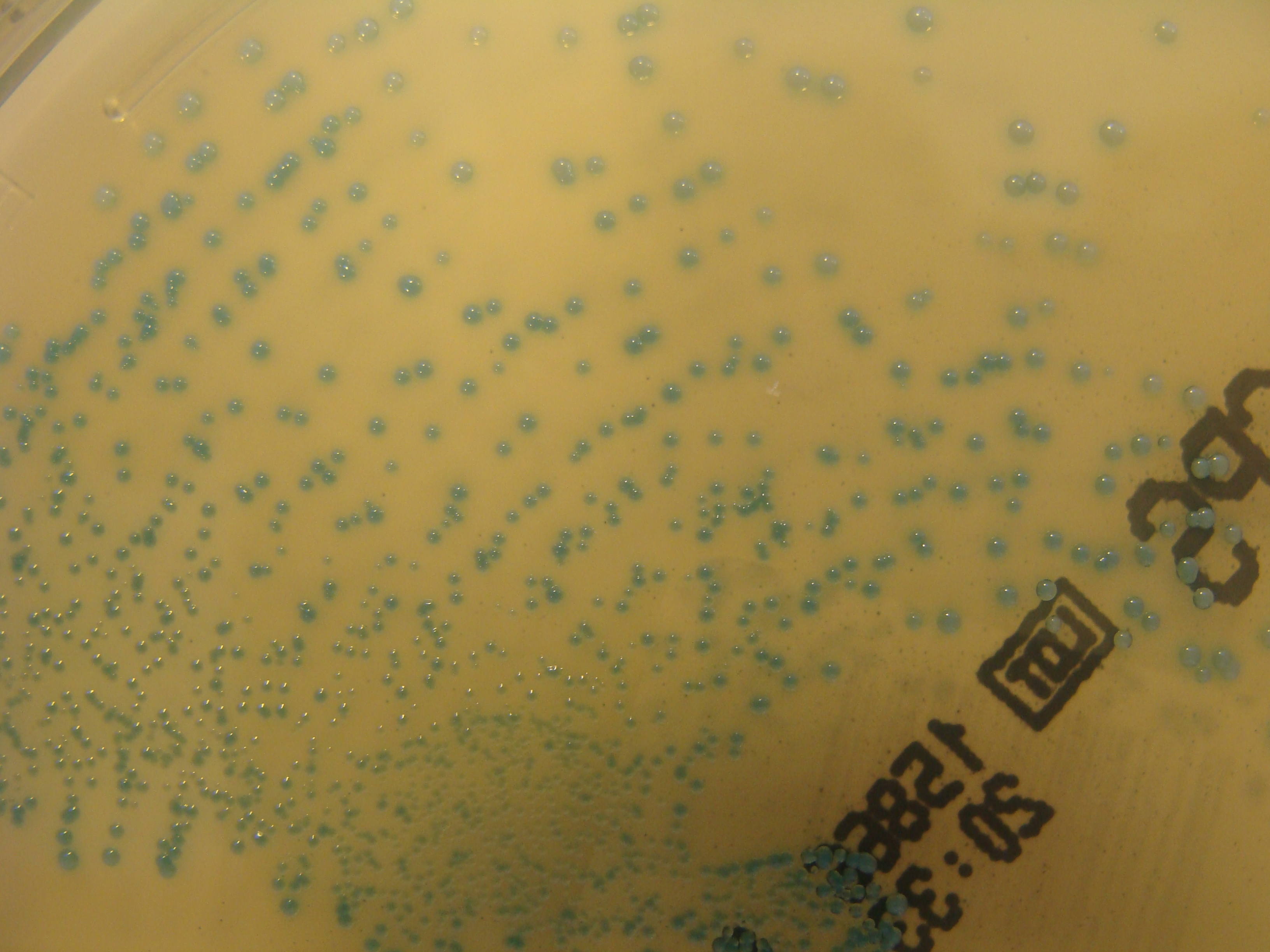 Streptococcus agalactiae (Group B Streptococcus) on ChromID CPS chromogenic agar. Isolate obtained from a urine sample from a 32 year old full term (39 weeks) asymptomatic pregnant female.